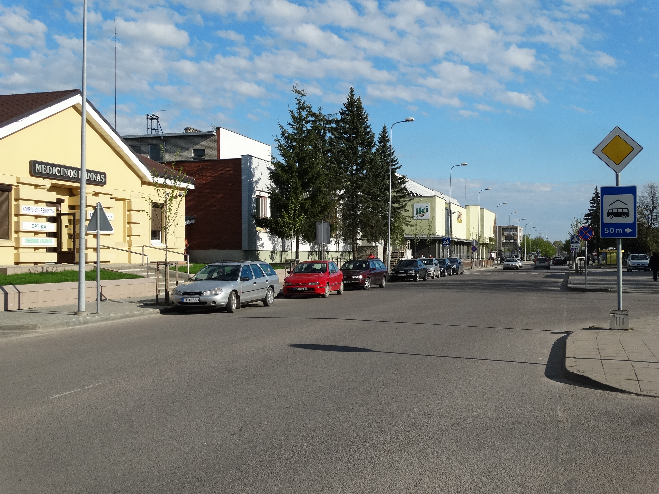 Šalčininkai, Lithuania